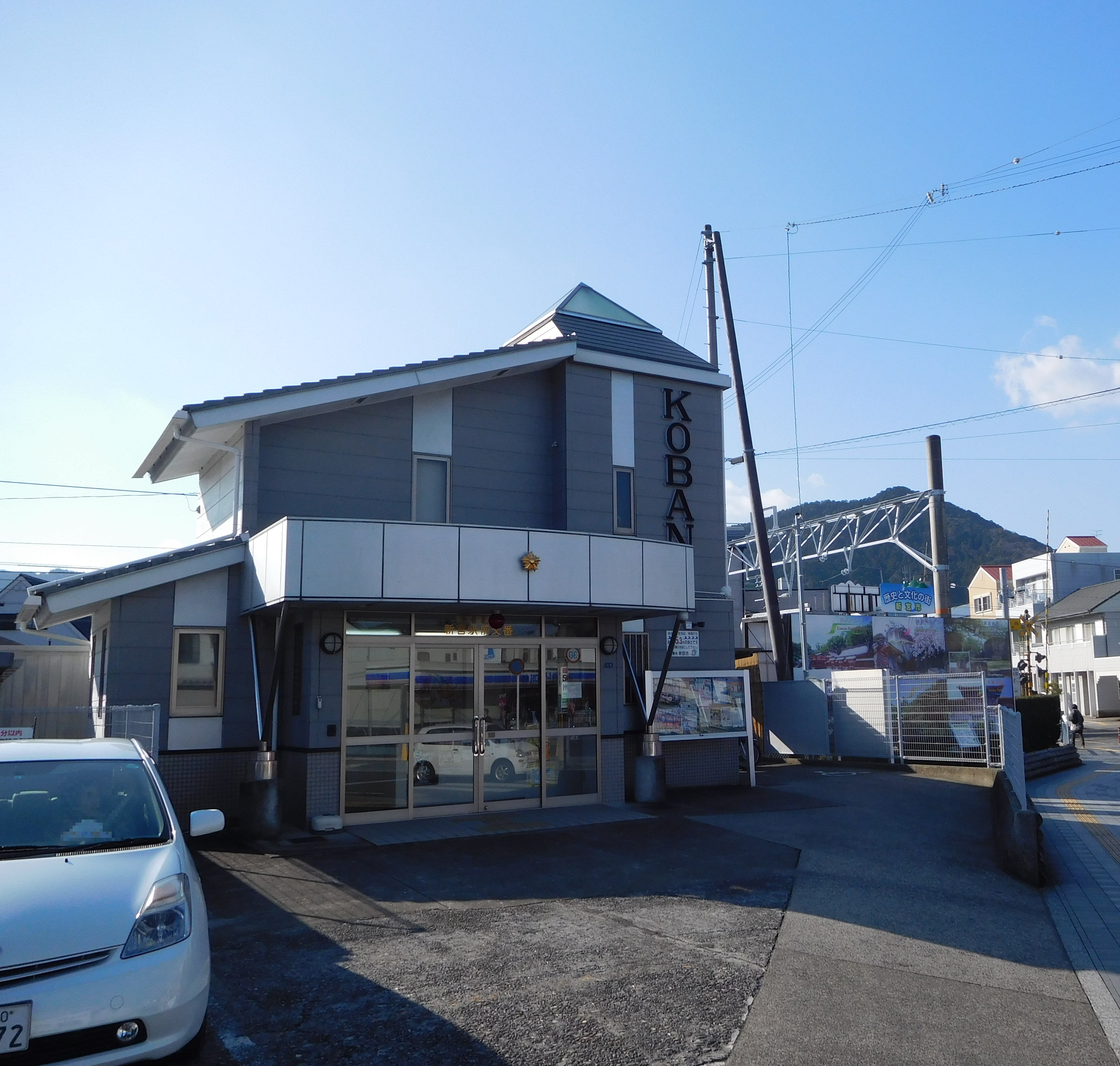 This is the Shingu Ekimae Koban, which is in Shingu, Wakayama, Japan.